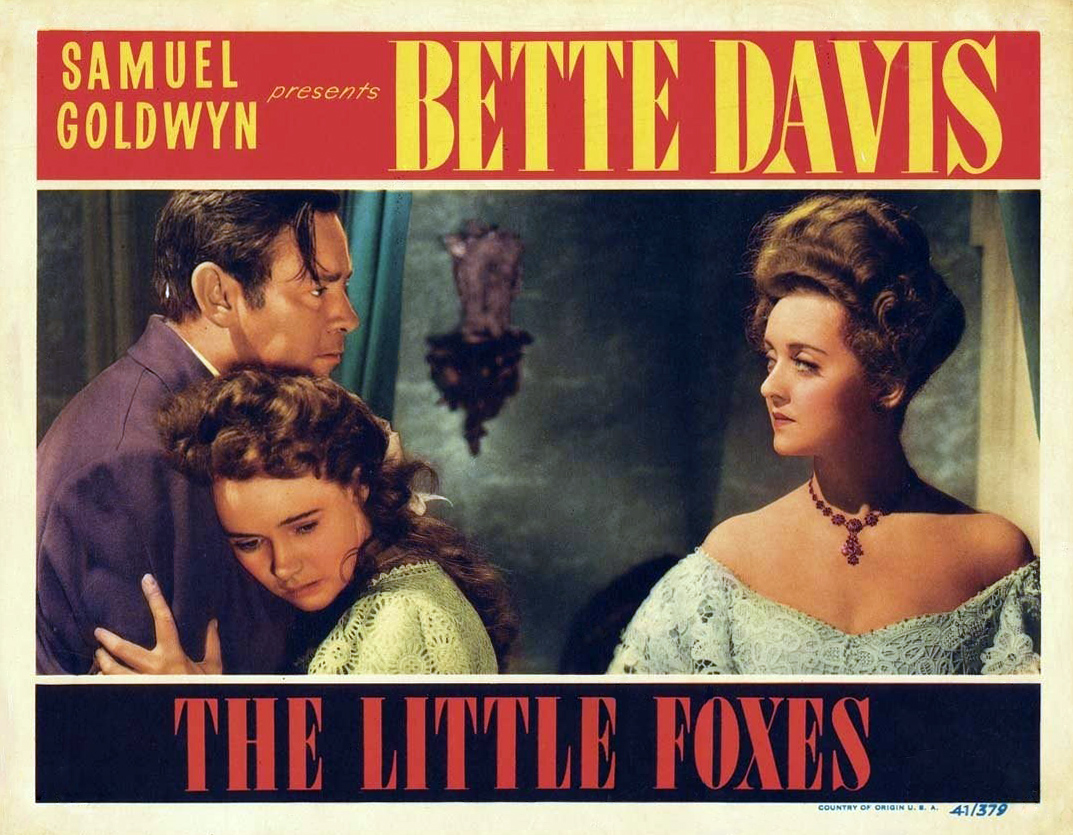 Poster for the American film The Little Foxes (1941).